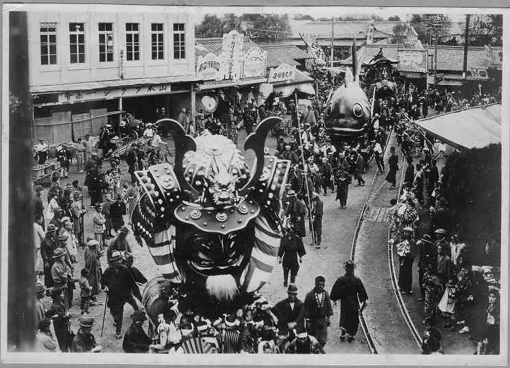 Karatsu Kunchi on a certain day